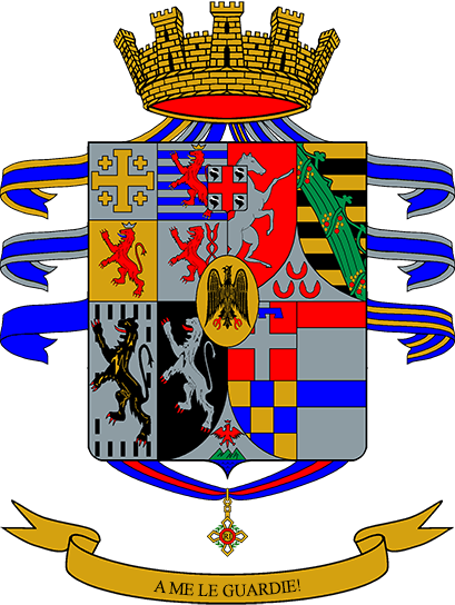 Coat of Arms of the 2° Granatieri Regiment; Italian Army.